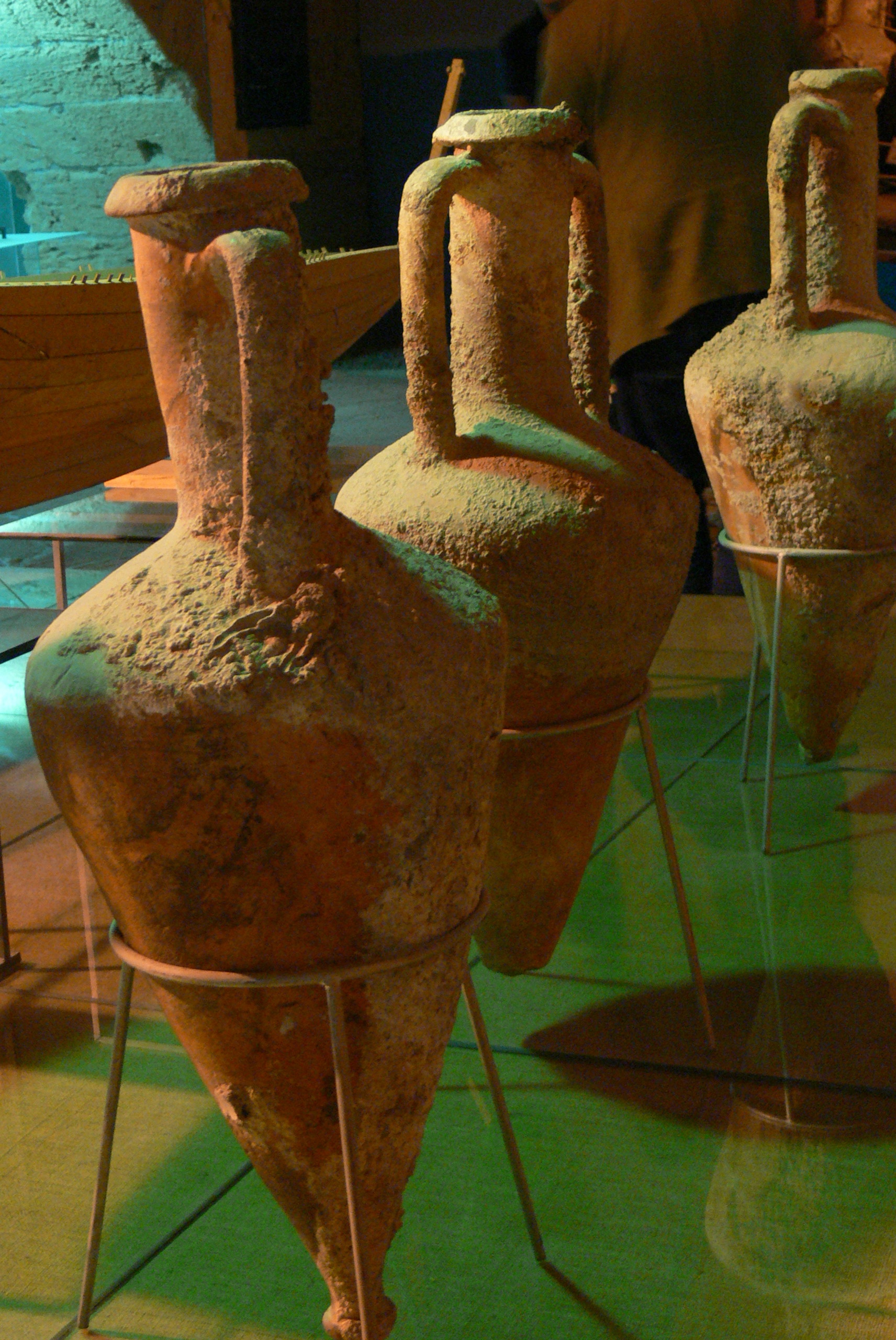 Kyrenia castle ( Northern Cyprus ). Shipwreck museum: Transport amphoras ( 3rd century BC ).